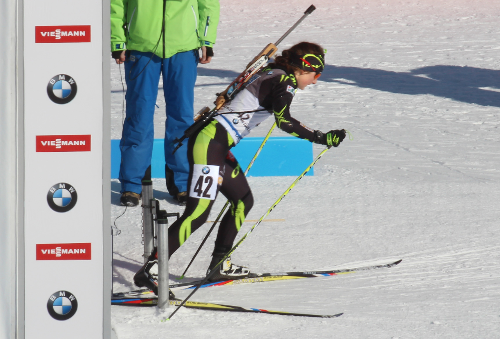 Justine Braisaz at Biathlon World Cup 2015 in Nové Město, Czech Republic – sprint women